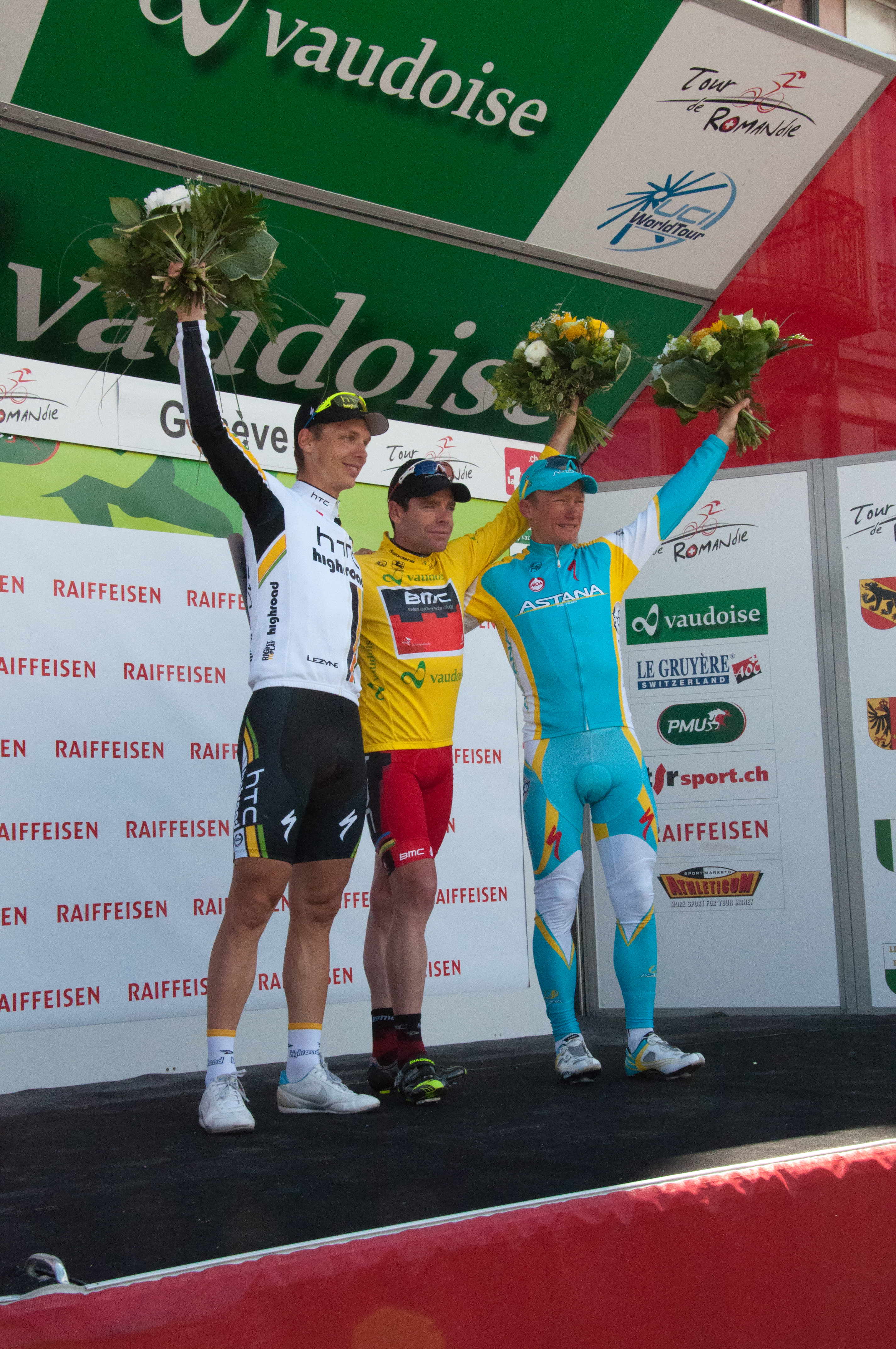 2011 Tour de Romandie, Final podium composed in the order of: 1st Cadel Evans (Yellow Jersey, BMC Racing), 2nd Tony Martin (Team HTC-Highroad) and 3rd Alexandre Vinokourov (Team Astana).